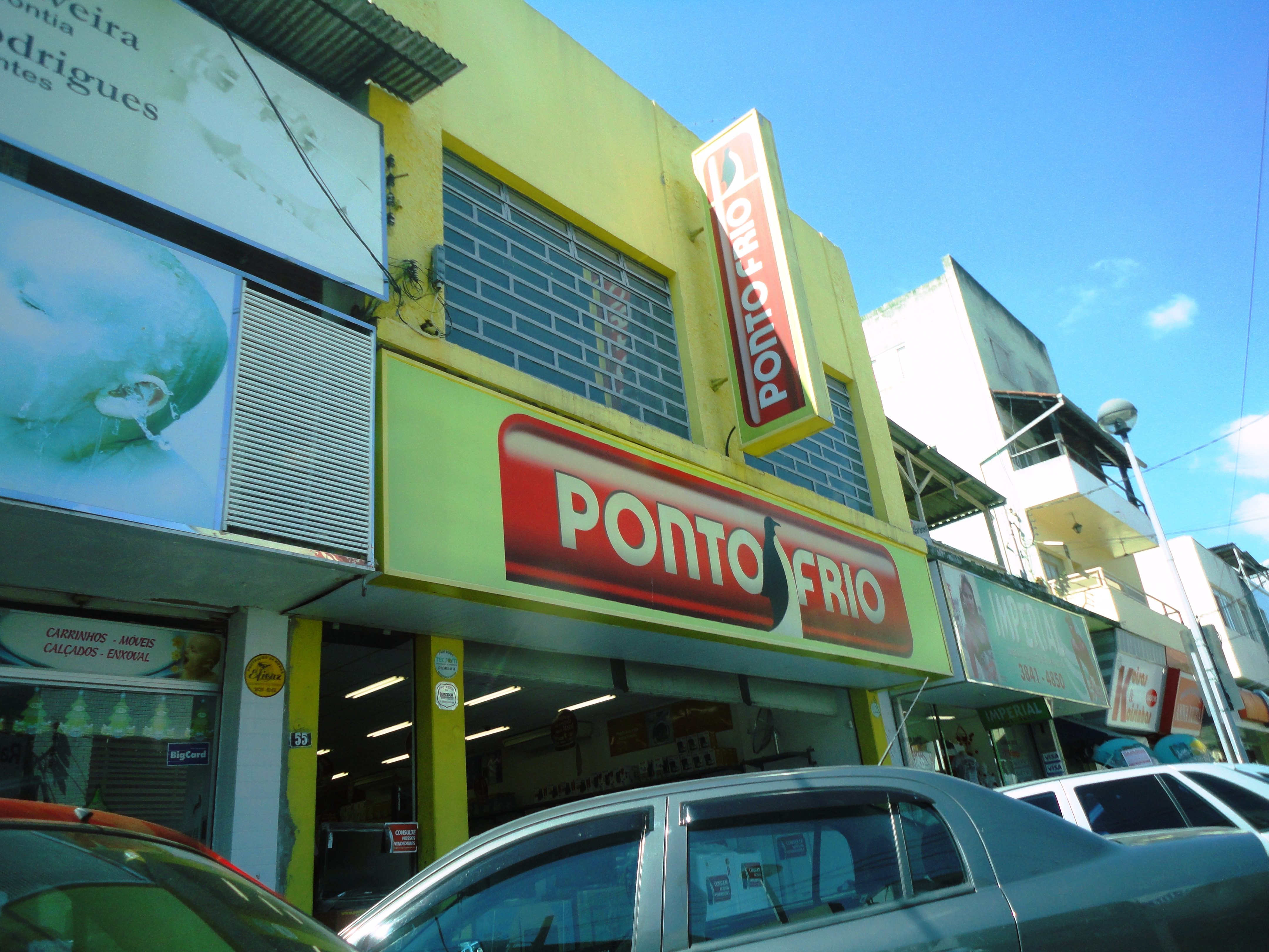 Ponto Frio of Coronel Fabriciano, Minas Gerais, Brazil.